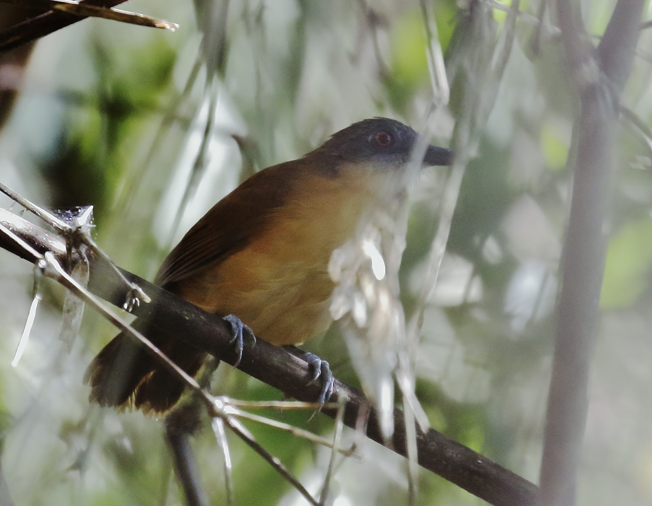 Goeldi's antbird (female) at Rio Branco, Acre, Brazil